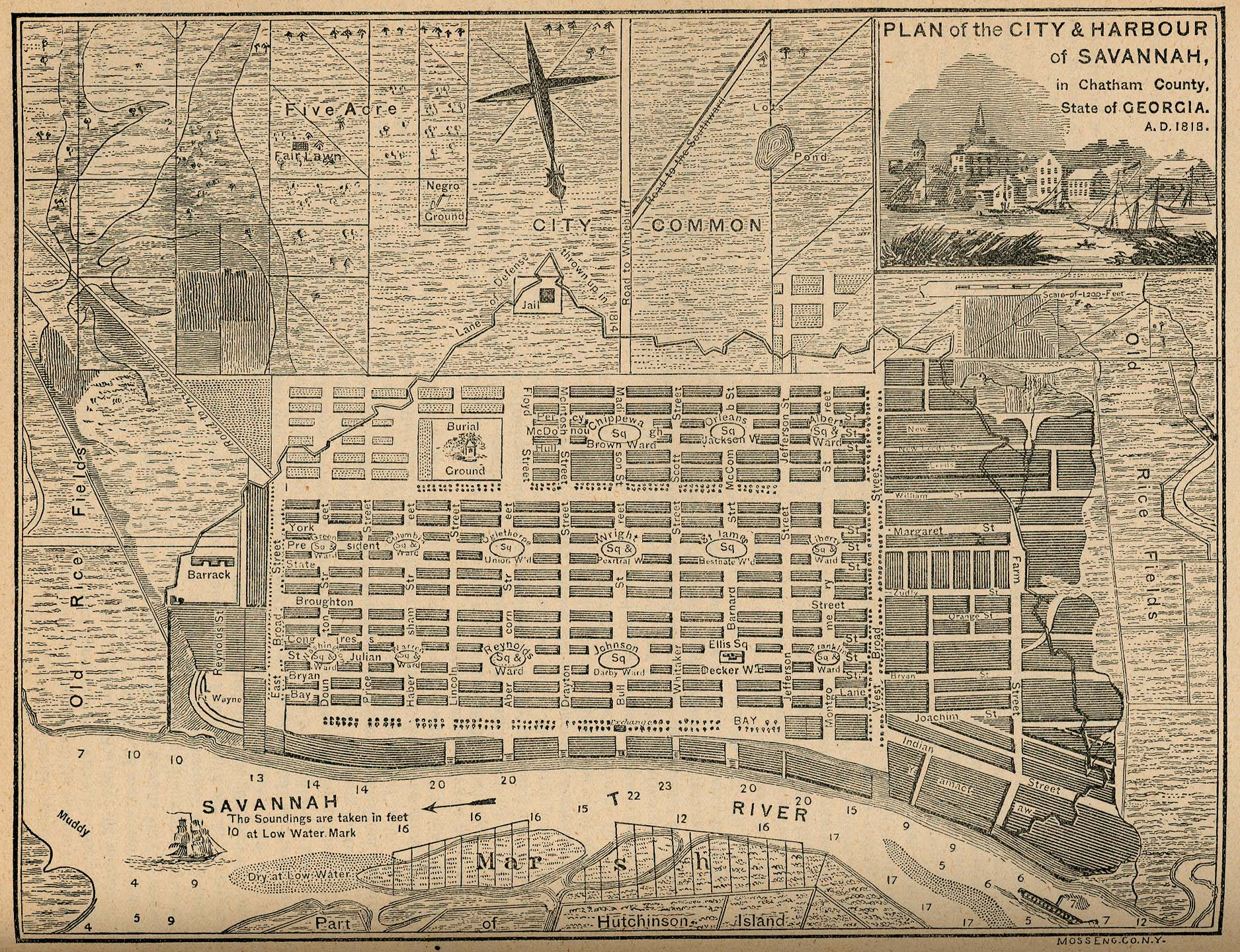 A plan of the City and Harbour of Savannah, Georgia, United States, drawn out in 1818